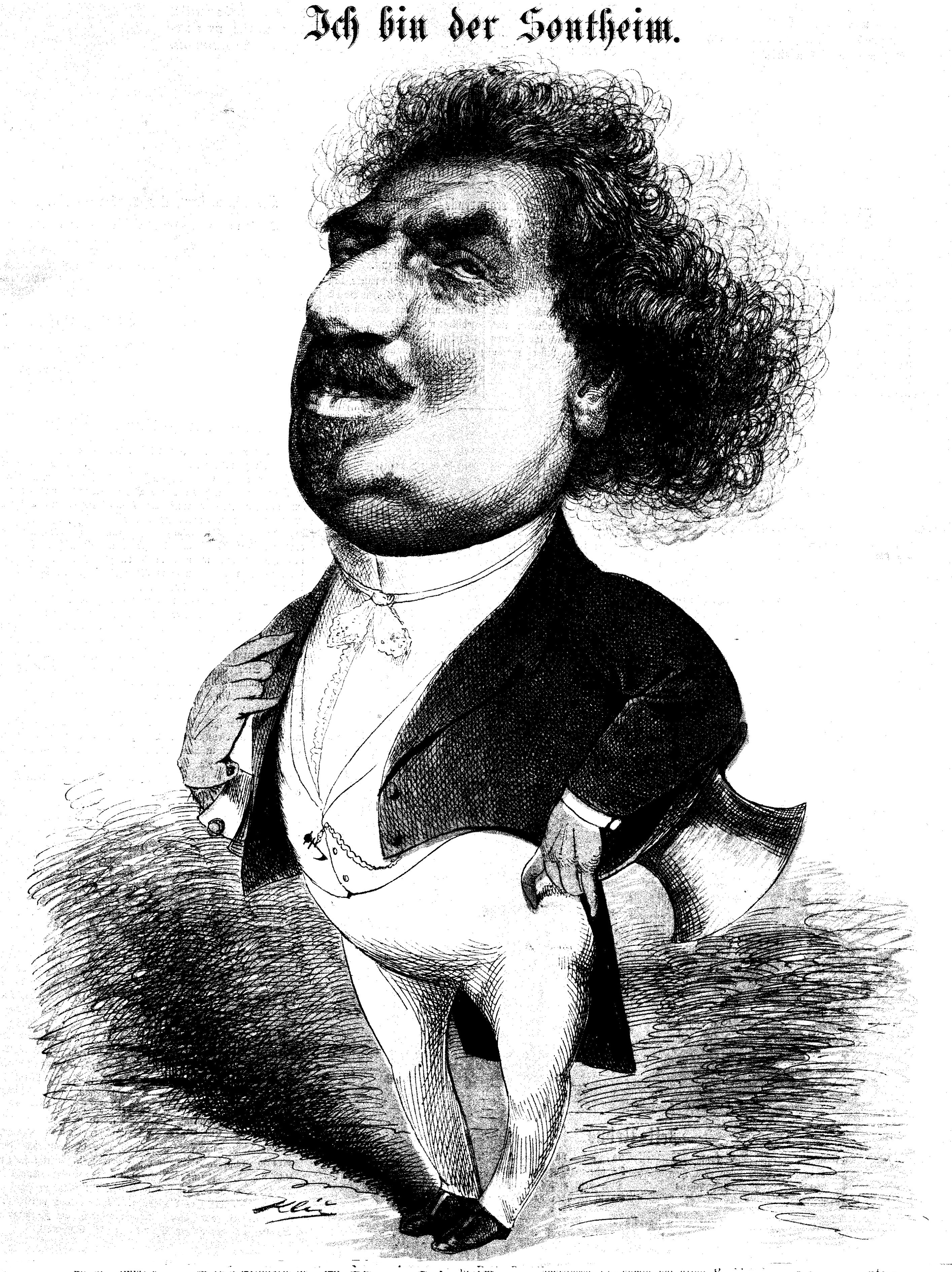 Cartoon of Heinrich Sontheim (1820-1912), German opera singer.